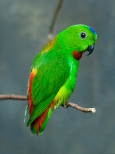 Blue-crowned Hanging Parrot (Loriculus galgulus) perching on a branch.